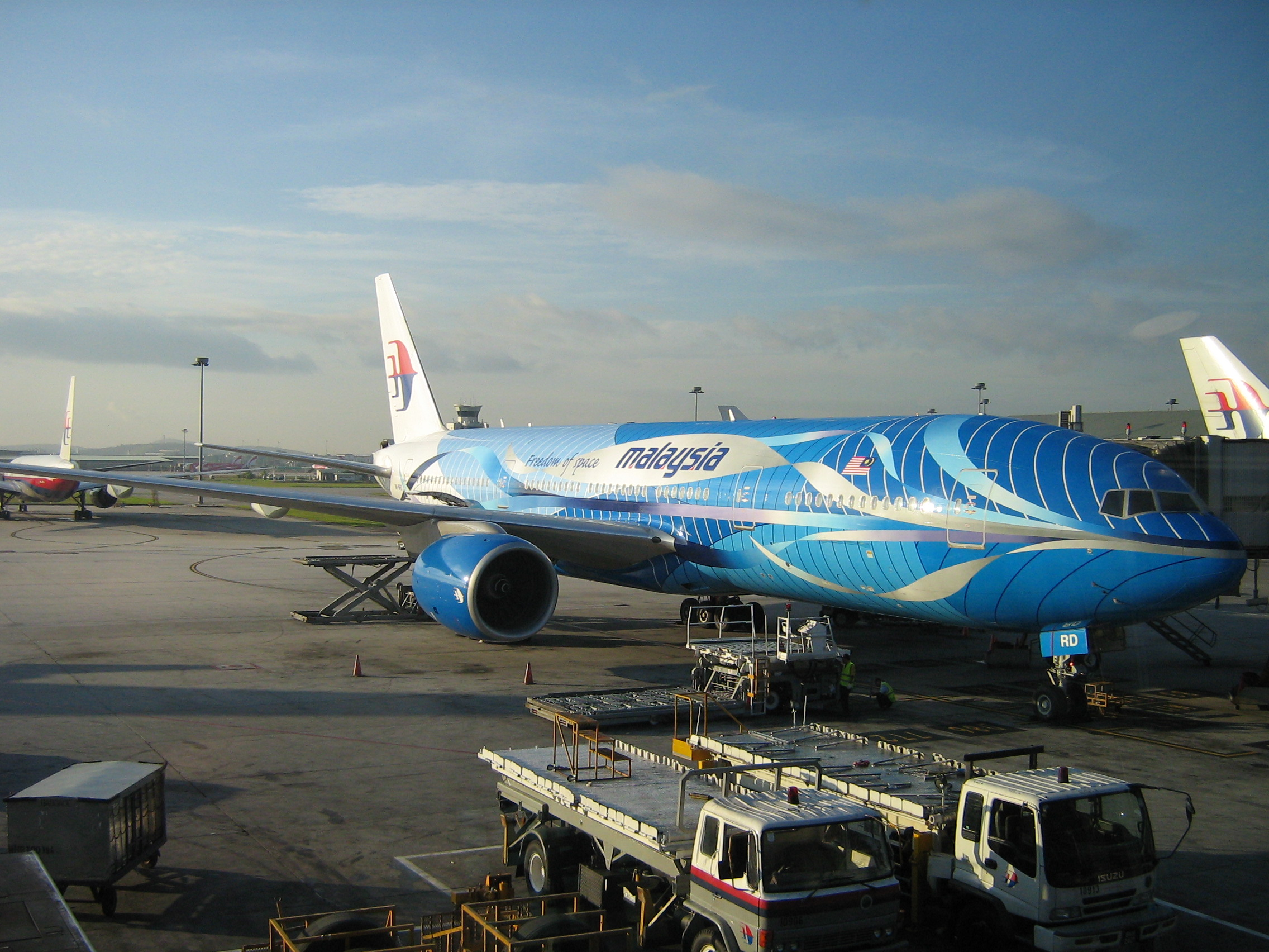 Boeing 777-2H6/ER der Malaysia Airlines am Kuala Lumpur International Airport